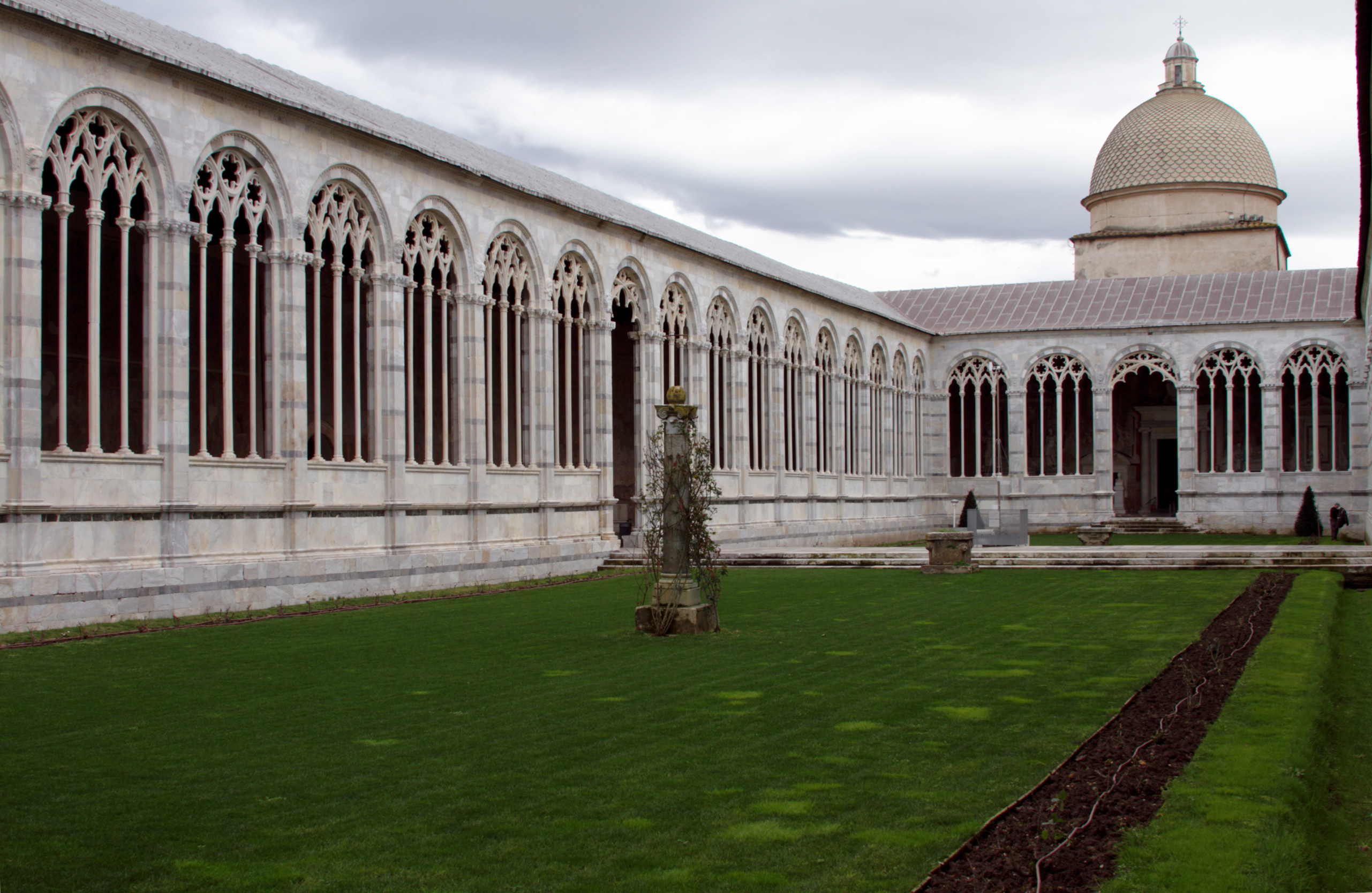 Camposanto - Pisa